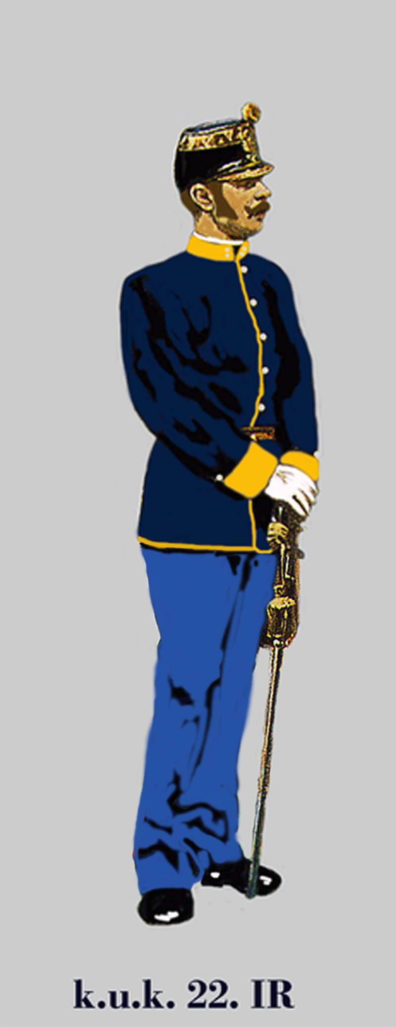 Lieutenant of the Austria-Hungarian (k.u.k.). 22nd german Infantry Regiment in Parade dress. 1914